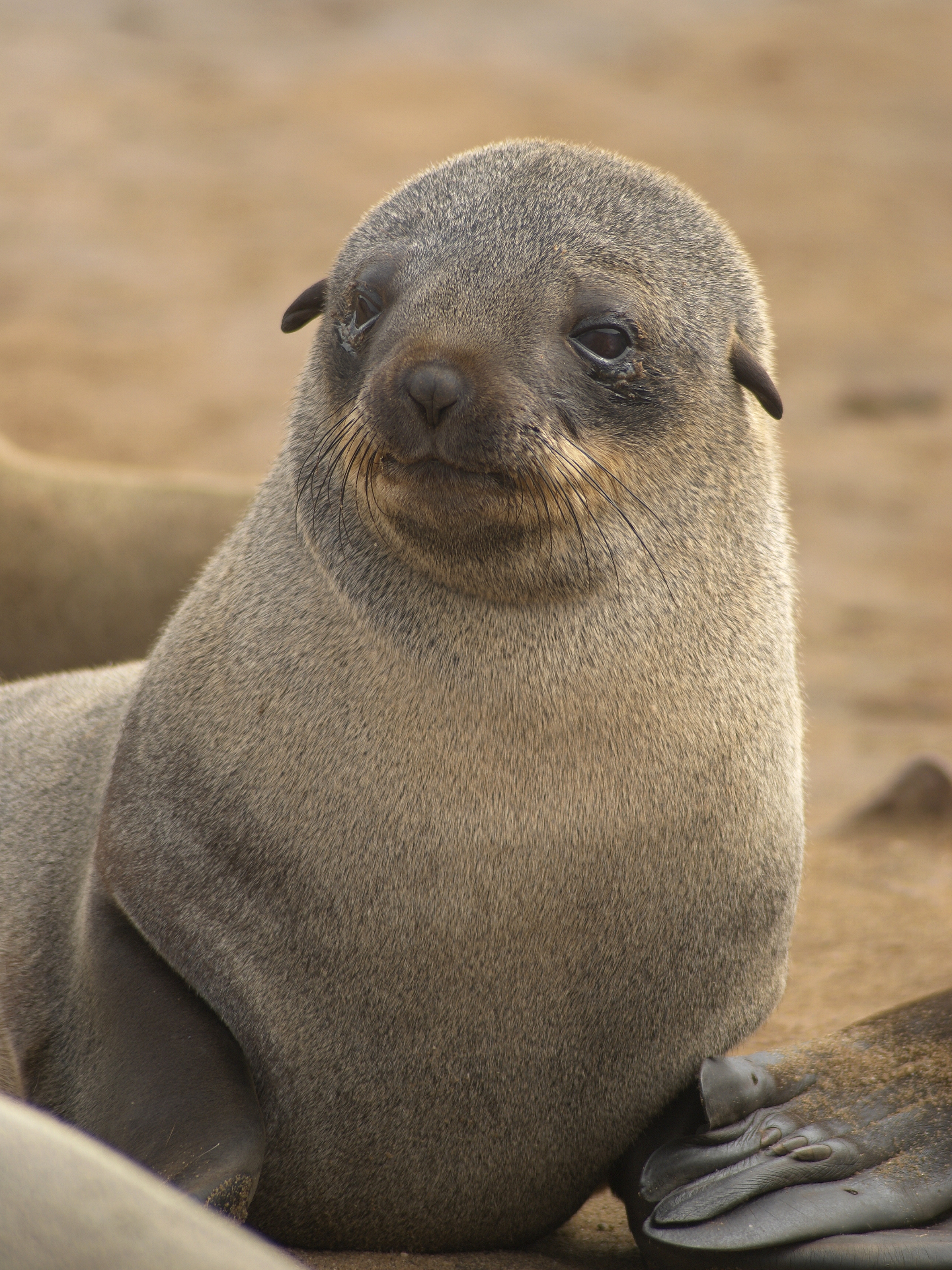 Cape Fur Seal (Arctocephalus pusillus) at Cape Cross, Namibia